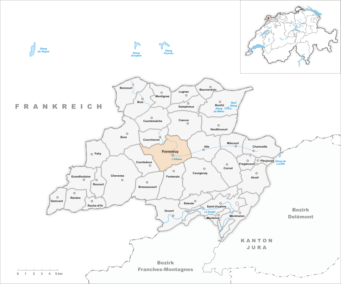 Municipality Porrentruy